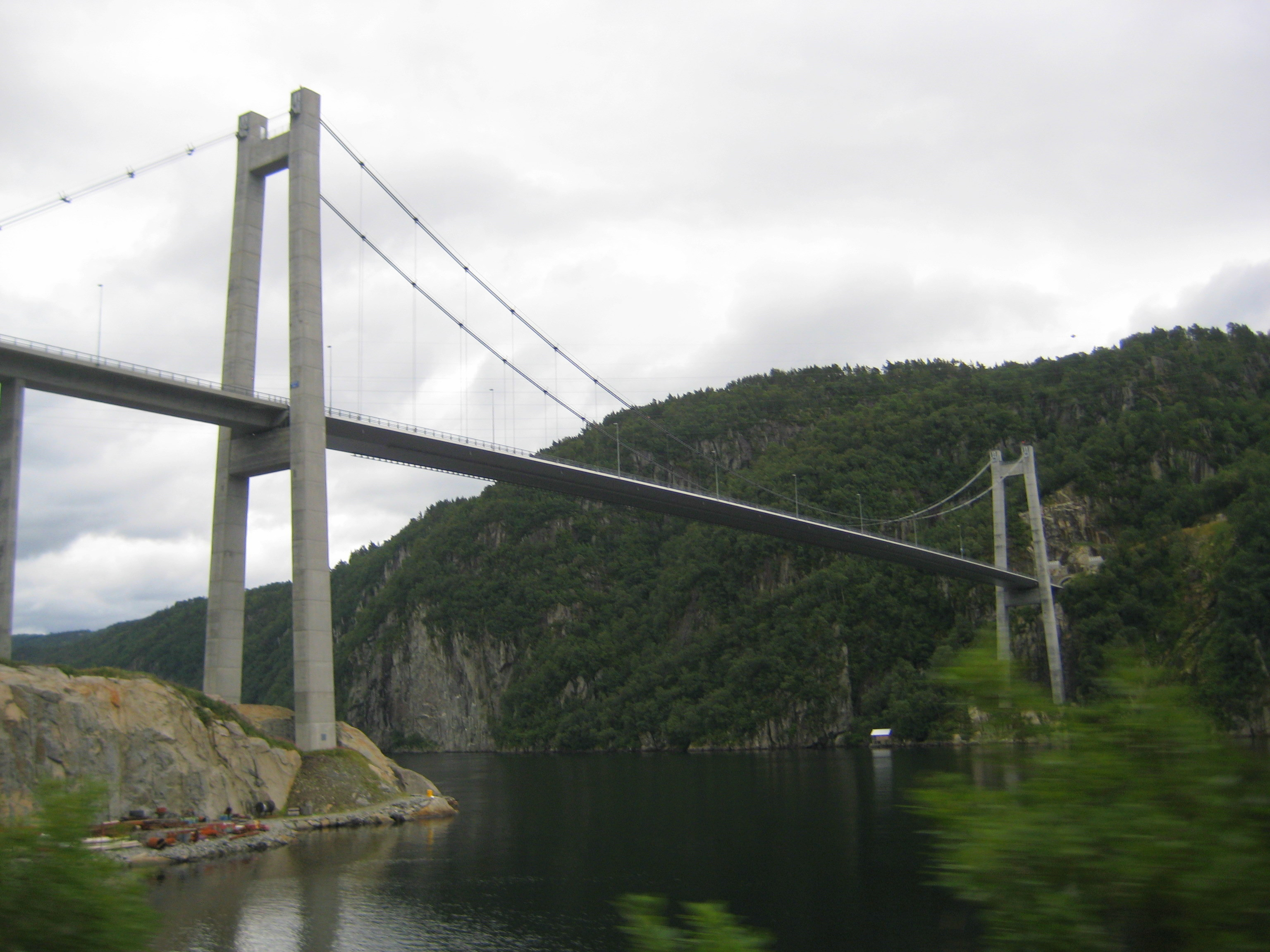 The Feda Fjord Bridge in Feda (Vest-Agder), Norway